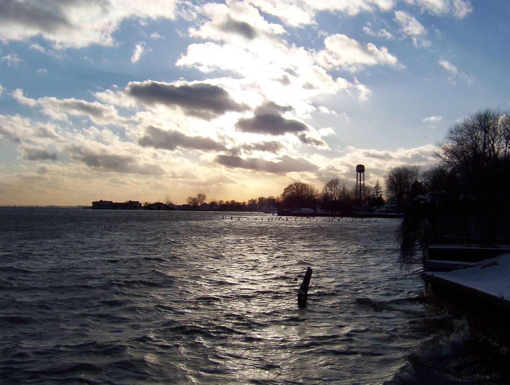 Taken by Stantonz. Photograph of the New Baltimore "History Harbor" Watertower, setting sun behind it. The body of water is Anchor Bay, part of Lake St. Clair.